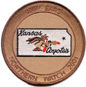 Emblem of the 900th Expeditionary Air Refueling Squadron (ONW)